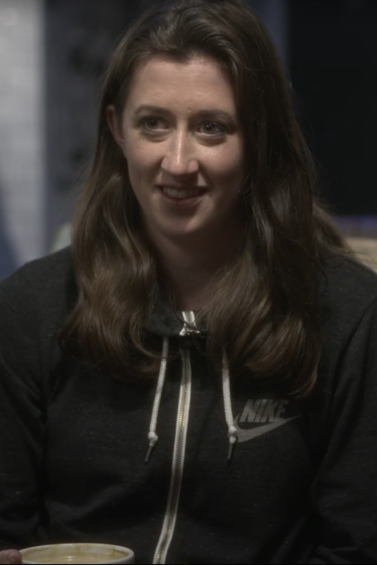 Simone Magill and Lizzie Durack, players for Everton L.F.C. interviewing for the club's YouTube channel